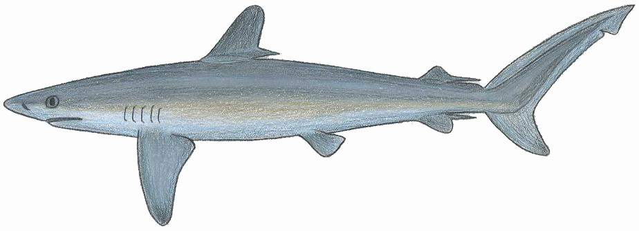 Carcharhinus falciformis